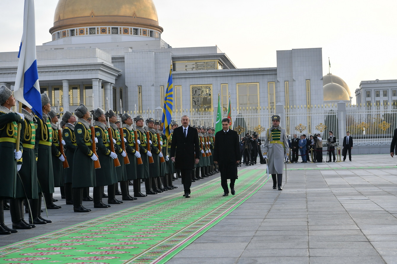 Ilham Aliyev in Turkmenistan